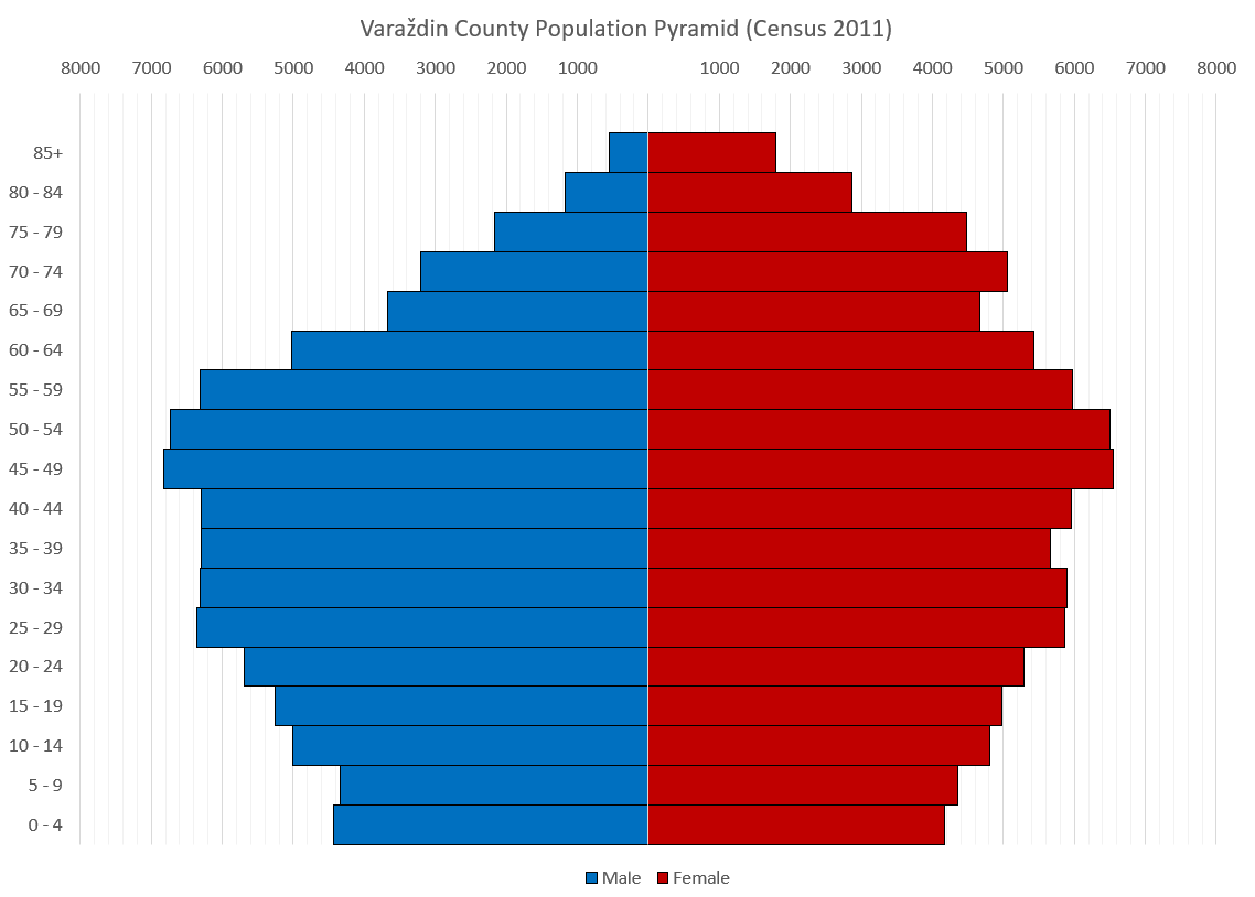 Population pyramid of Varaždin County. Version in English. Data from 2011 Census; available at